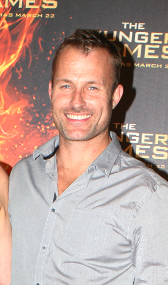 Brendan Moar at The Hunger Games Sydney Premiere And Review, Sydney Australia